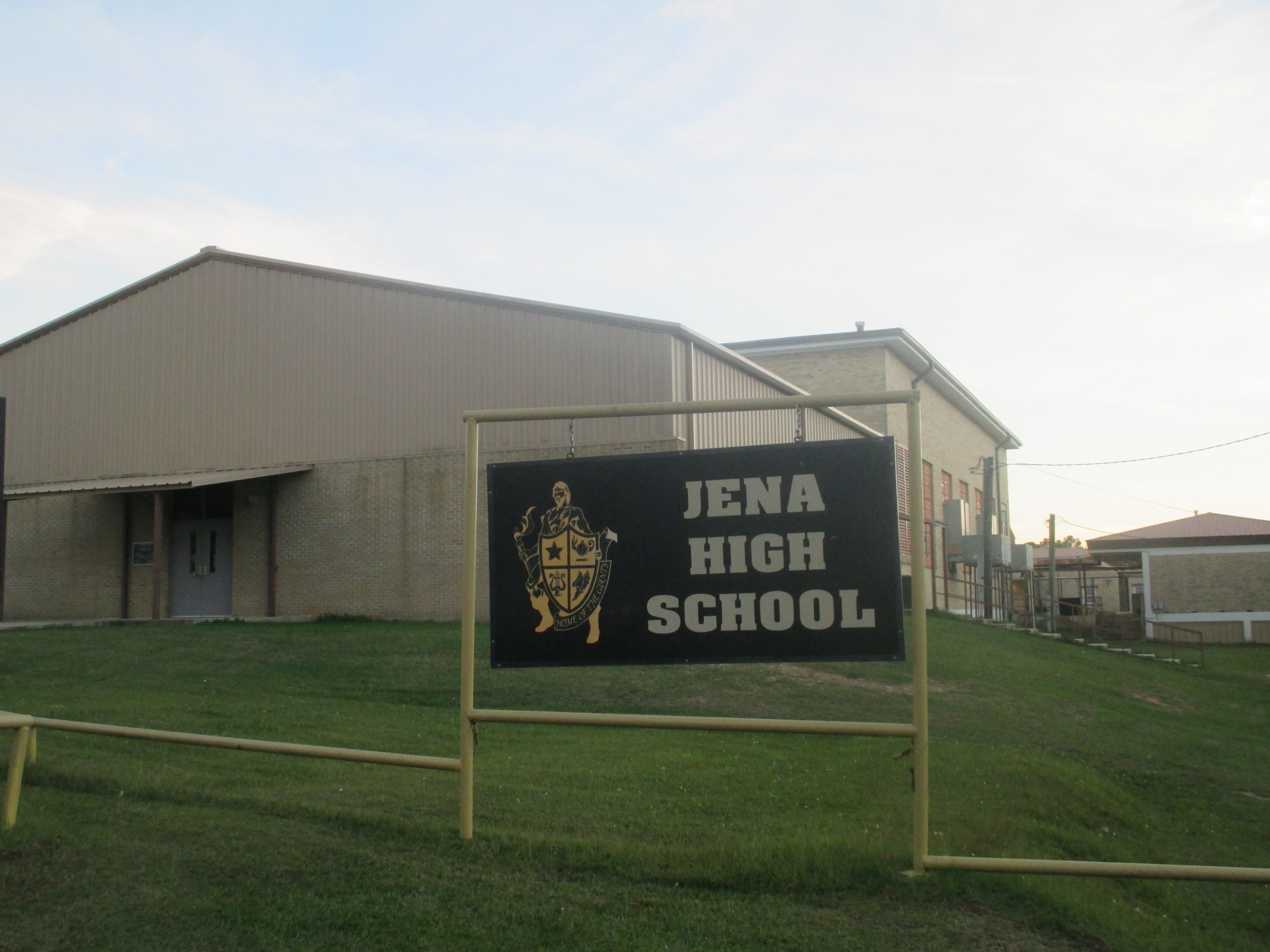 I took photo of Jena High School in Jena, LA, with a Canon camera.